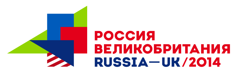 UK Russia Year of Culture logo_RUS